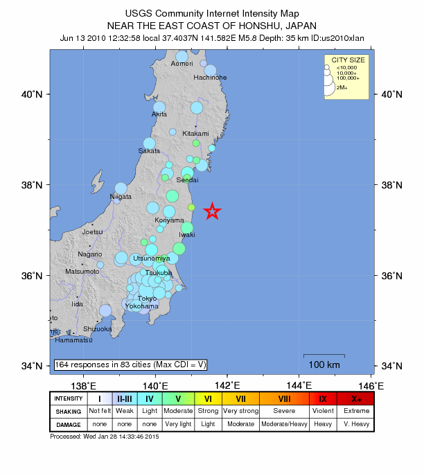 M 5.9 - near the east coast of Honshu, Japan 2010-06-13 03:32:57 (UTC)